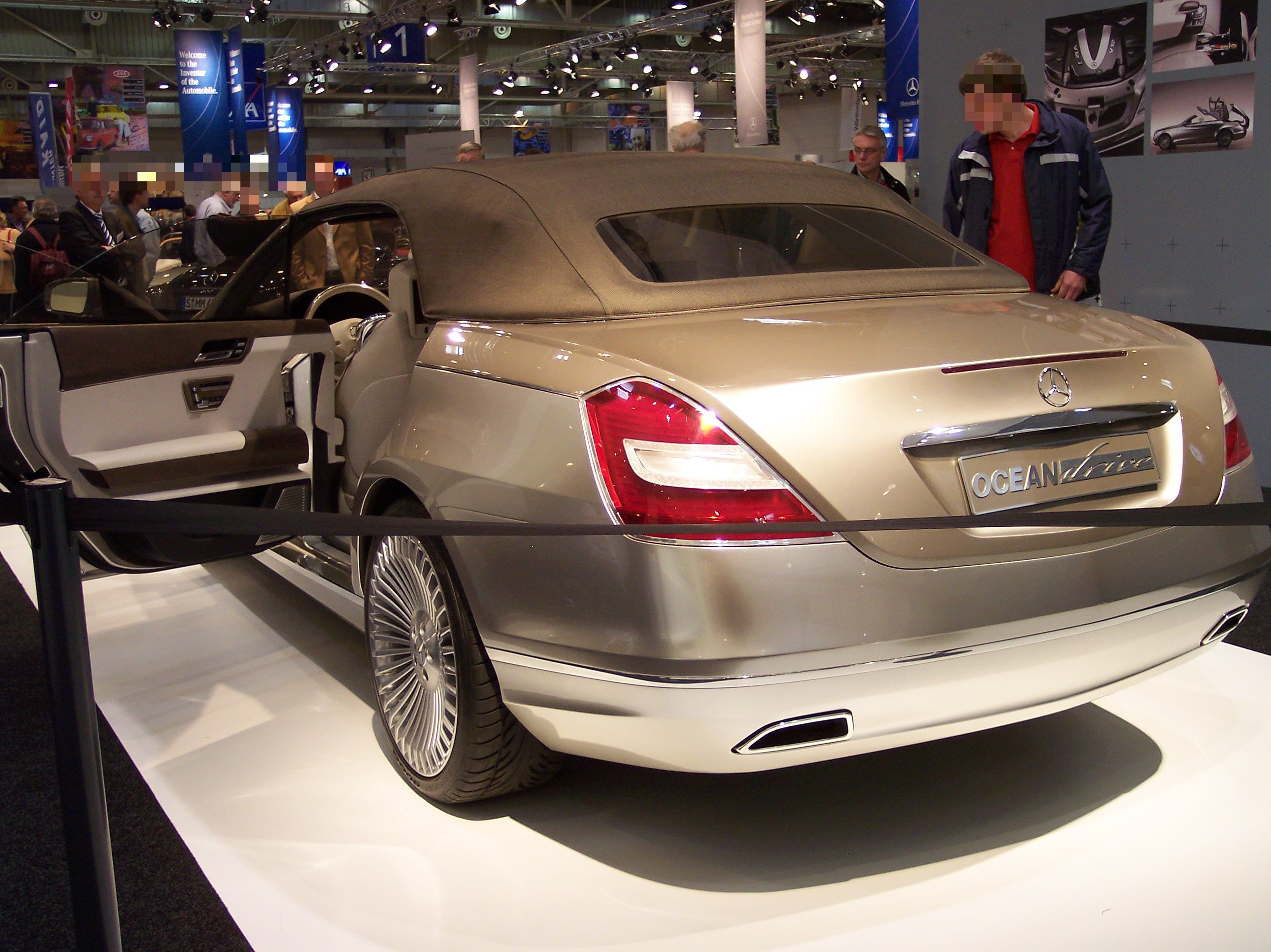 Techno-Classica 2007, Mercedes-Benz Concept Ocean Drive Convertible based on the Mercedes-Benz S 600 with twelve-cylinder-engine